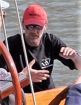 Michael G. Wilson on a yacht in Venice during a break in filming Casino Royale.